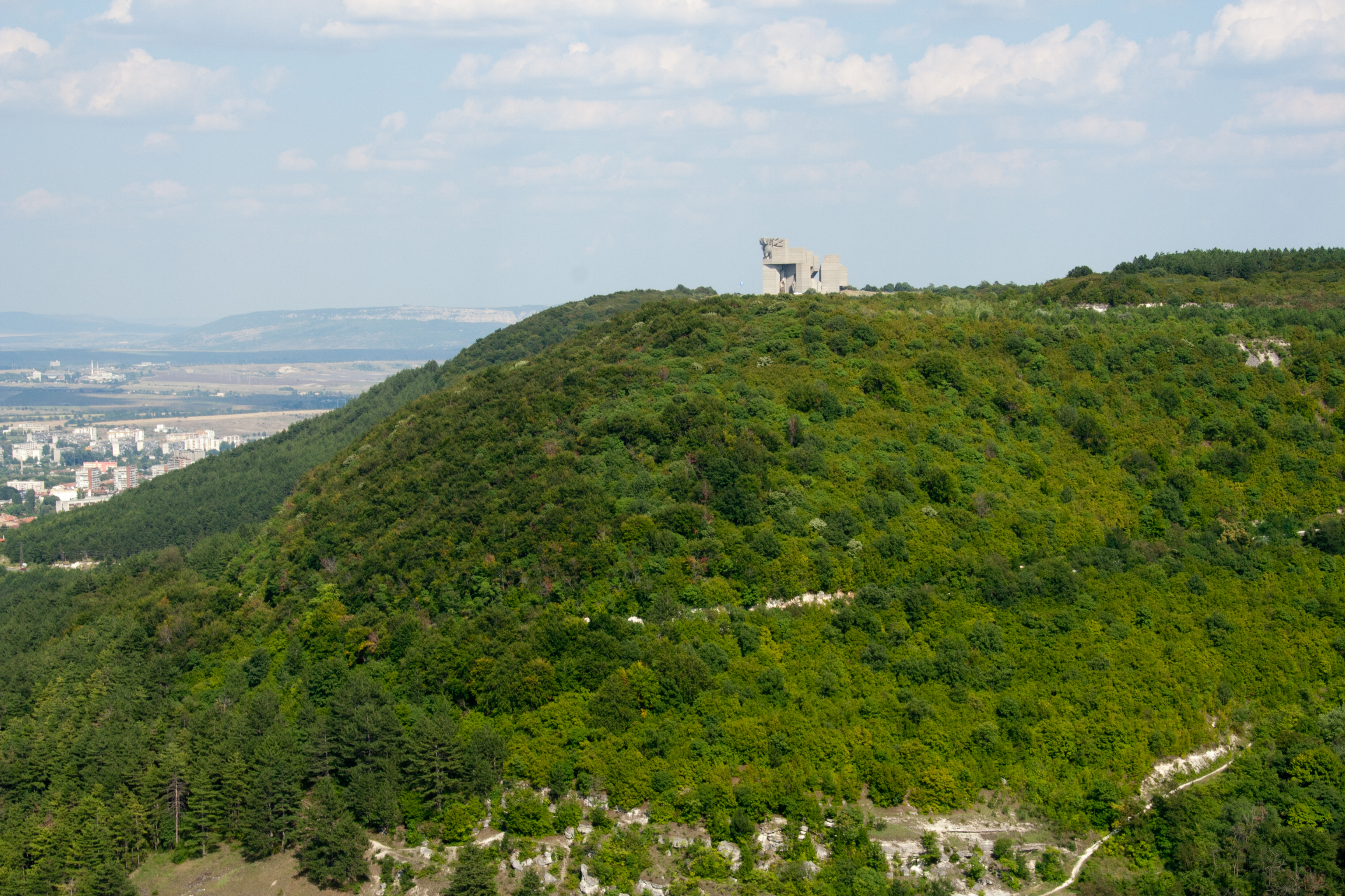 The Shumen plateau and the monument Founders of Bulgarian State. The photo is taken from the Shumen fortress. Shumen Province.